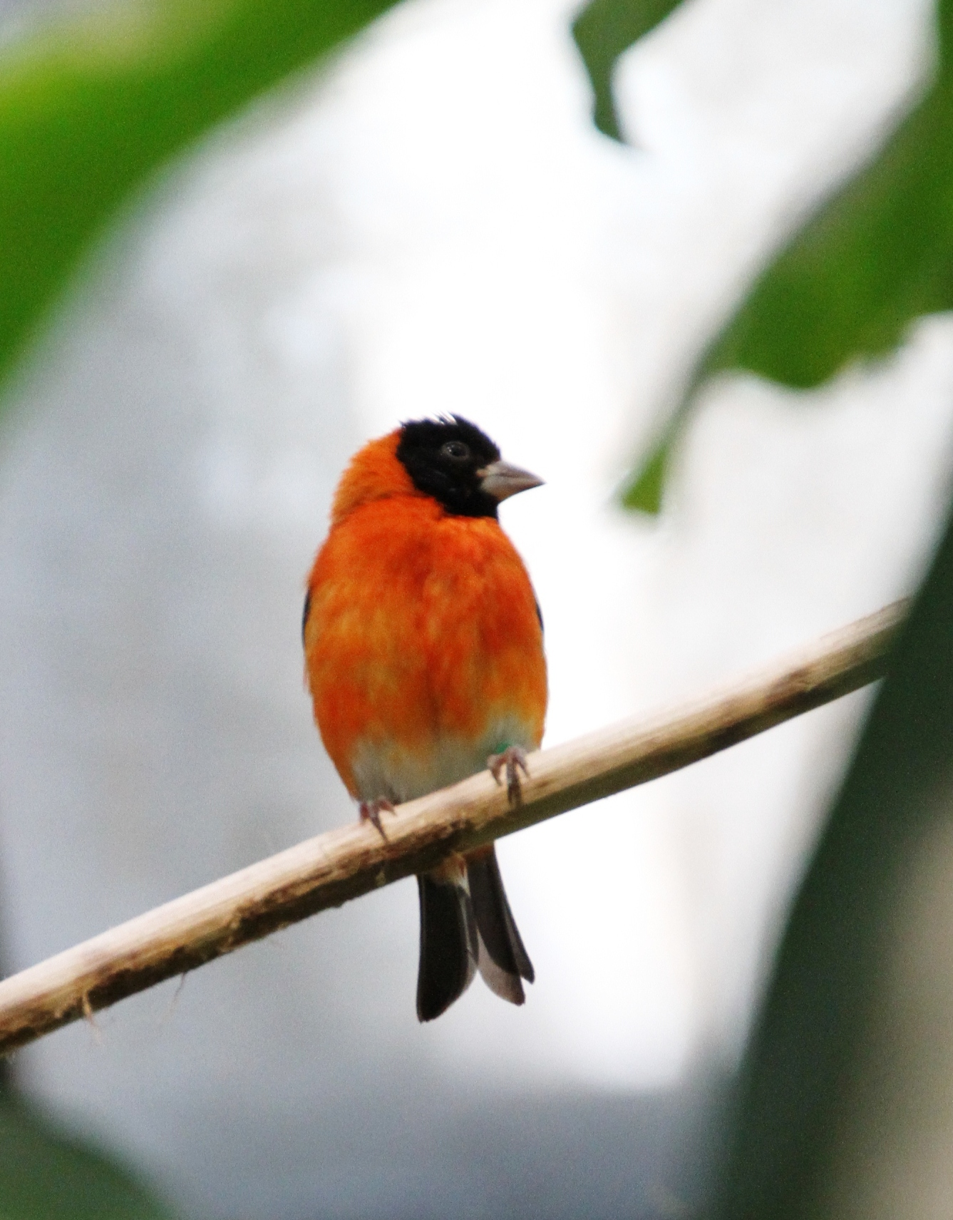 Carduelis cucullata (norwegian: rødsisik) in the Universeum Science Park of Gothenburg, Sweden